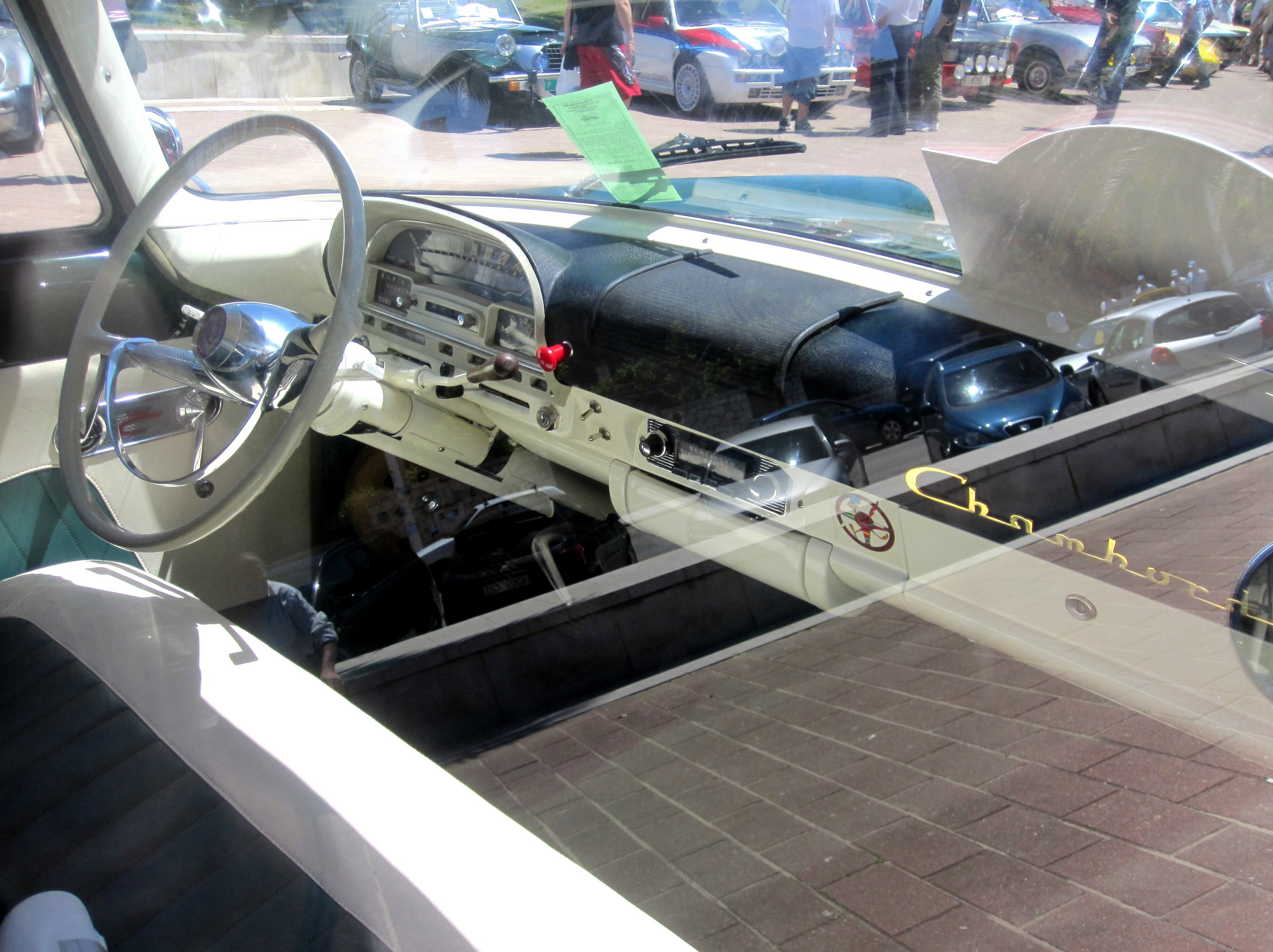 Simca Chambord Interior